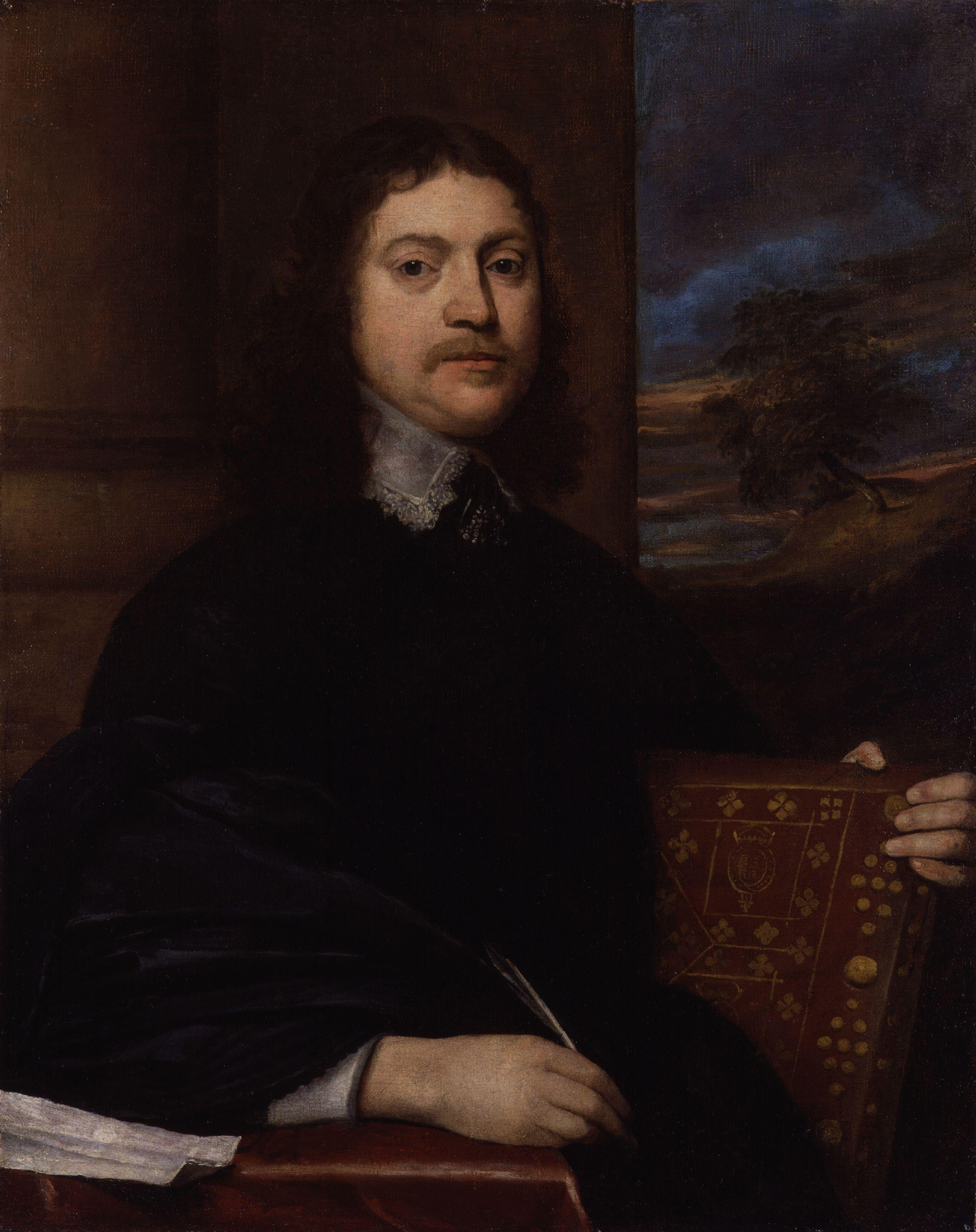 Probably Nicholas Oudart, by William Dobson (died 1646). All images in this batch have been confirmed as author died before 1939 according to the official death date listed by the NPG.